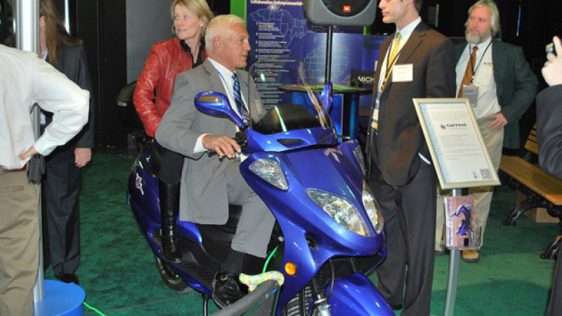 Bob Lutz at a Current Motor Company promotion event